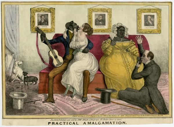 An illustration from the 1835 novel "A Sojourn in the City of Amalgamation, in the year of our Lord 19--", by Oliver Bolokitten. Part of digital collections catalog through a grant from the Institute of Museum and Library Services as administered by the Pennsylvania Department of Education through the Office of Commonwealth Libraries, and the Commonwealth of Pennsylvania, Tom Corbett, Governor, 2013-2014.